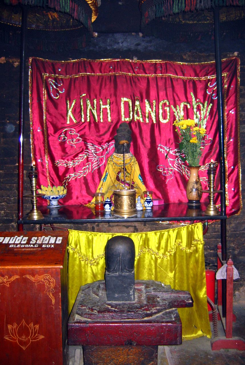 Inside Po Nagar